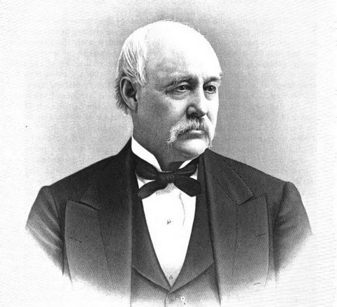 Nelson Ludington lumberman of Michigan